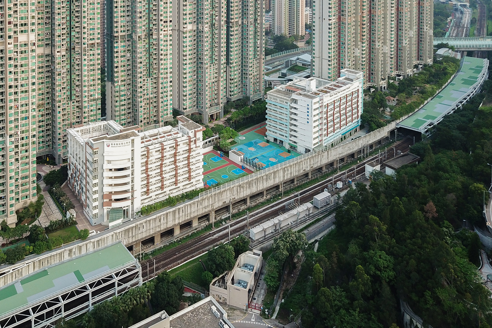 School in Festival City